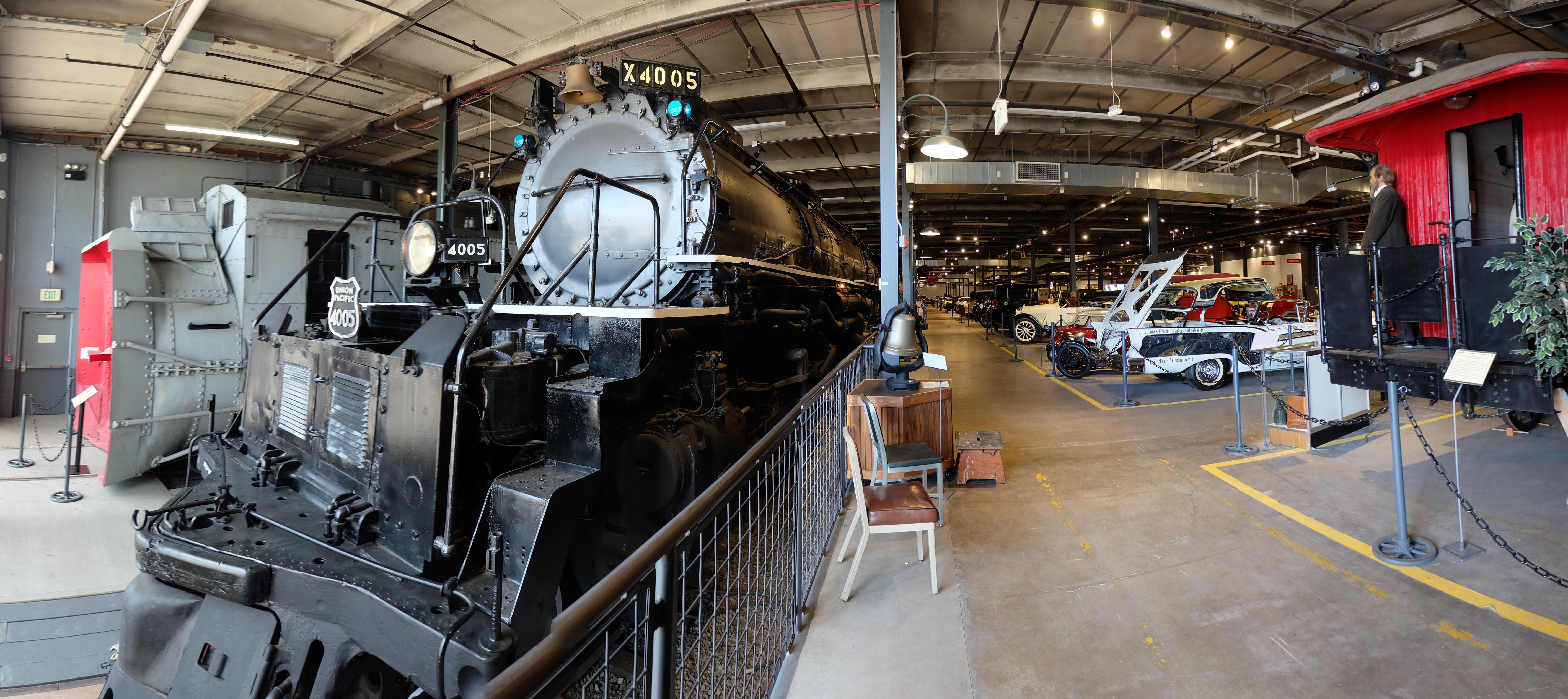 Panorama of the interior of Forney Transportation Museum showing the UP Big Boy #4005 steam locomotive.